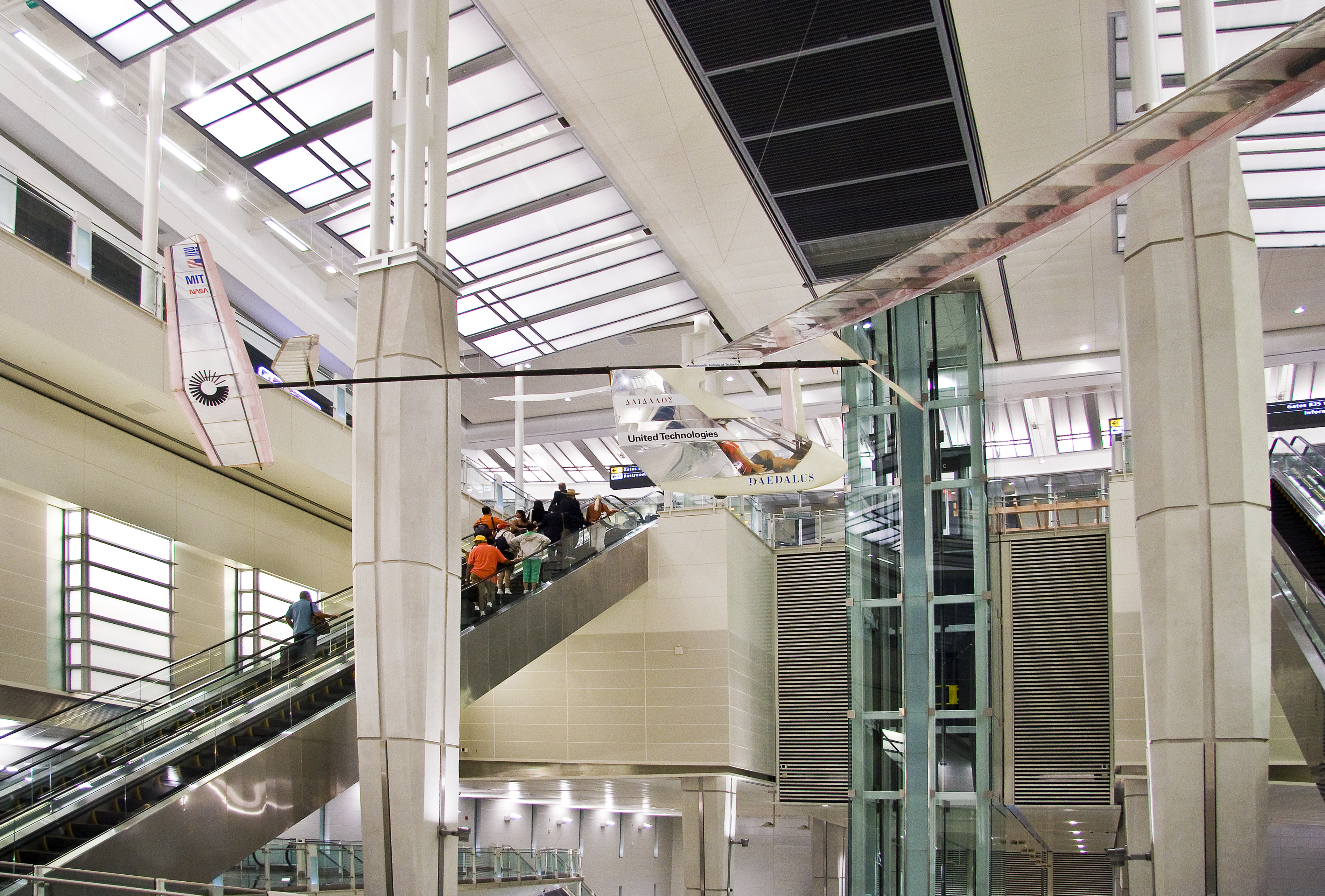 MIT Daedalus 87 human-powered aircraft on display in the transit concourse, Dulles International Airport Terminal B, near Washington, D.C.